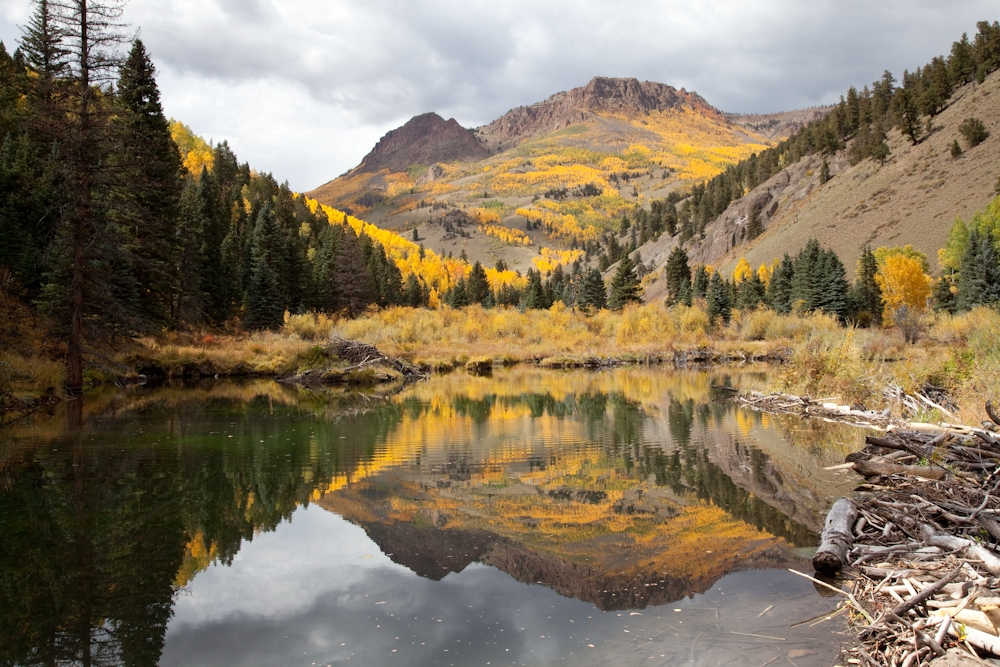 Aspens are reflected in Shallow Creek west of Creede, CO. The trail begins as an old road and immediately crosses the creek. But one mile in, and you hike into an aspen- and spruce-dominated forest. The trail is open to hikers, horseback riders, and mountain biking. USDA Photo.